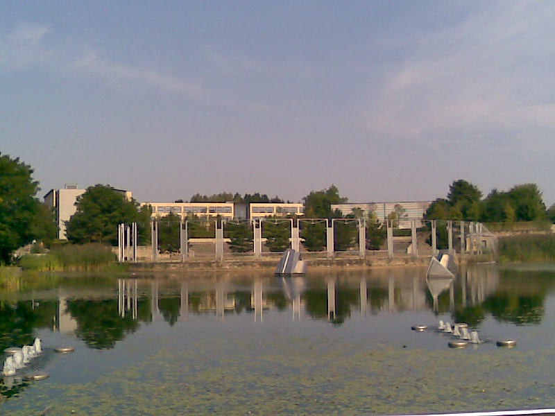 Lake between the Coque and the European School on the Kirchberg Plateau.